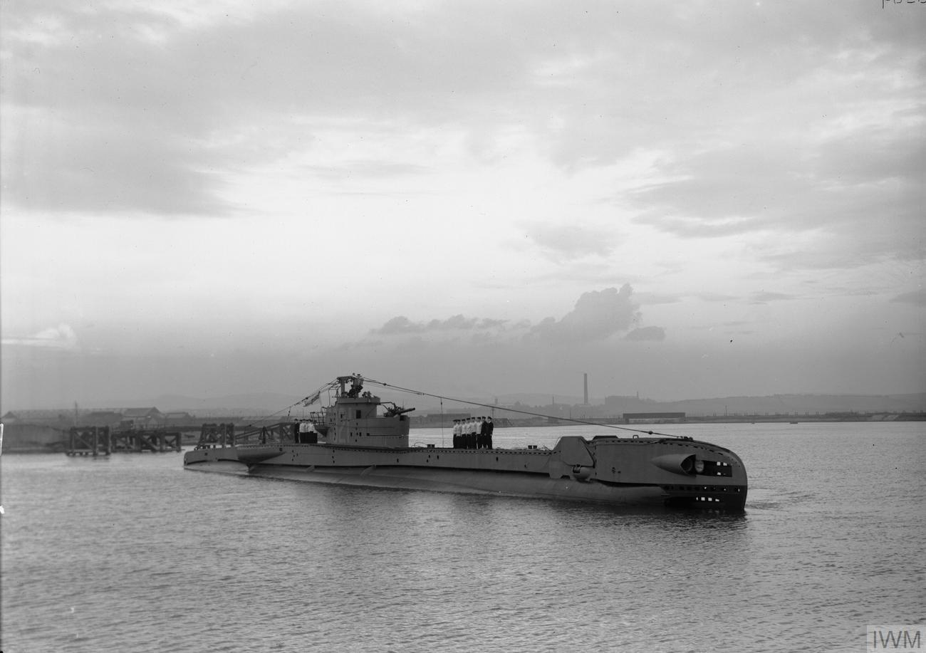 The British T class submarine HMS Telemachus (P321) underway on completion.